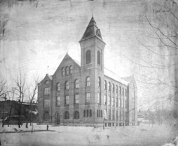 Photo of Humboldt Senior High School in Saint Paul of the first building that housed the school.